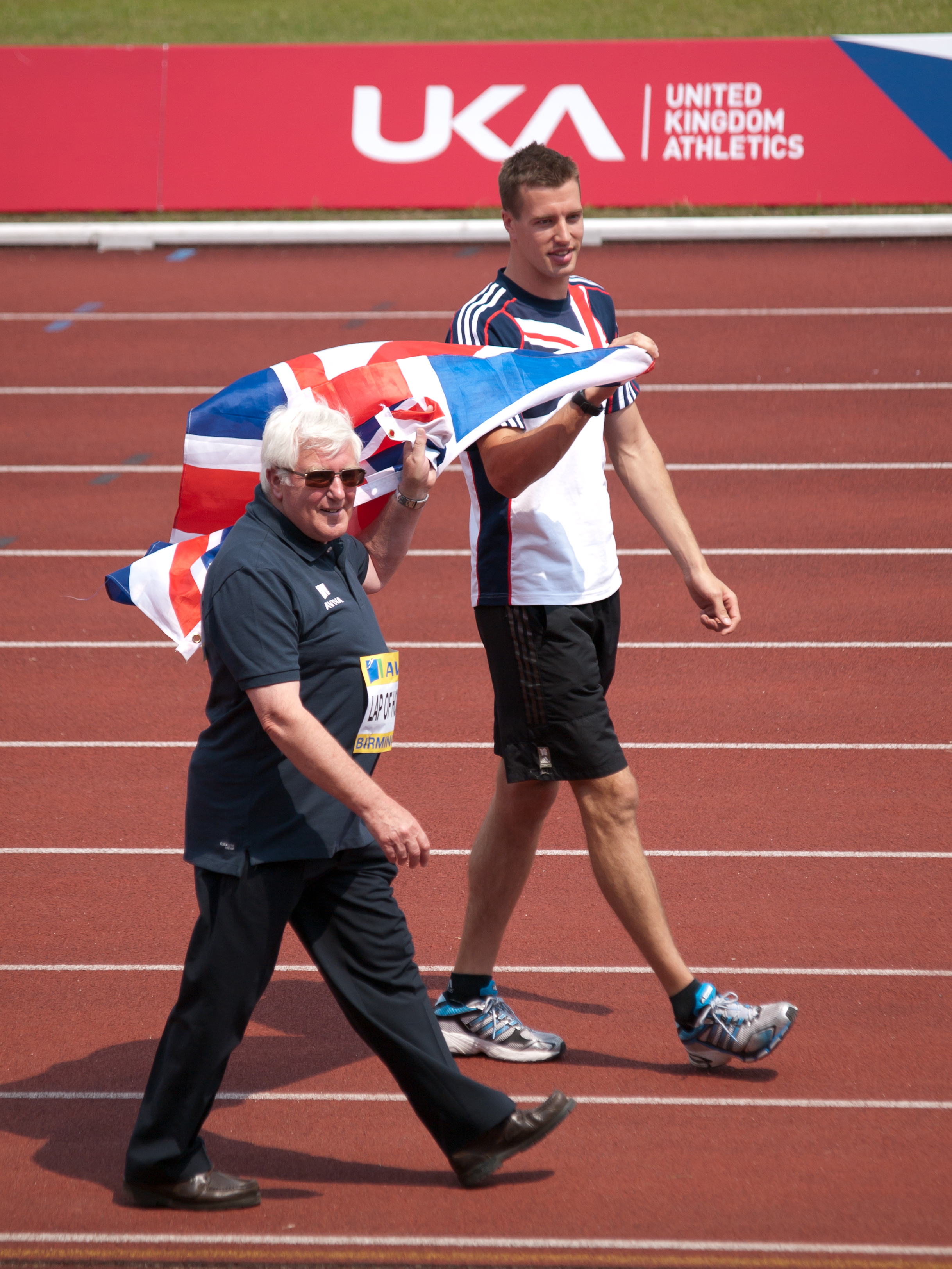 Tom Parsons escorting winner Bill Adcocks on Lap of Honor at the Aviva 2010 UK Athletics Championships and European Trials at the Alexandra Stadium in Birmingham